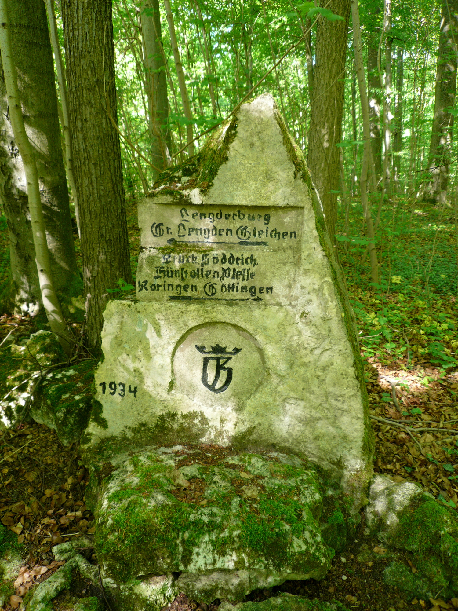 Old hiking route signs in forest near Goettingen